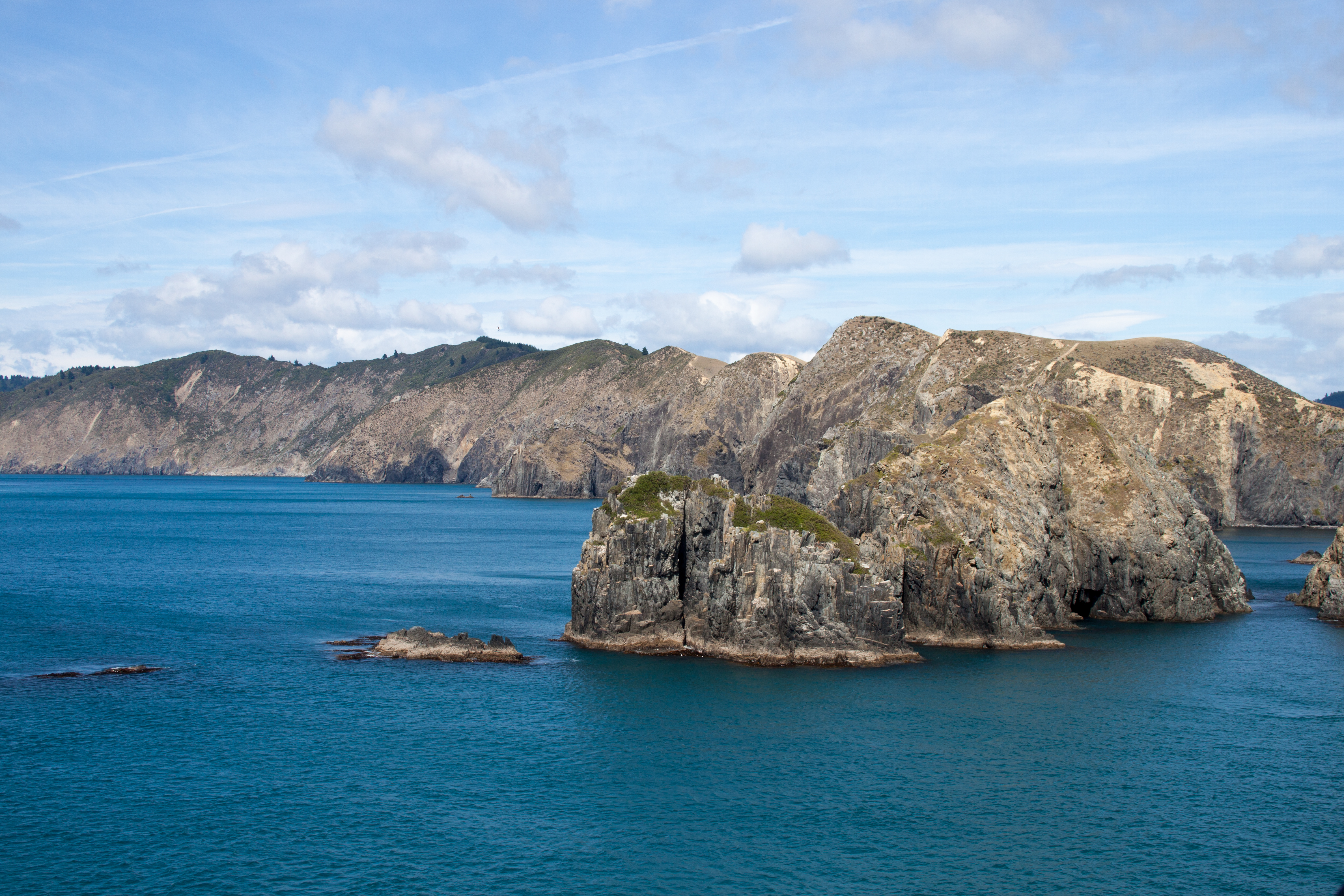 Shore of the South Island from the ferry